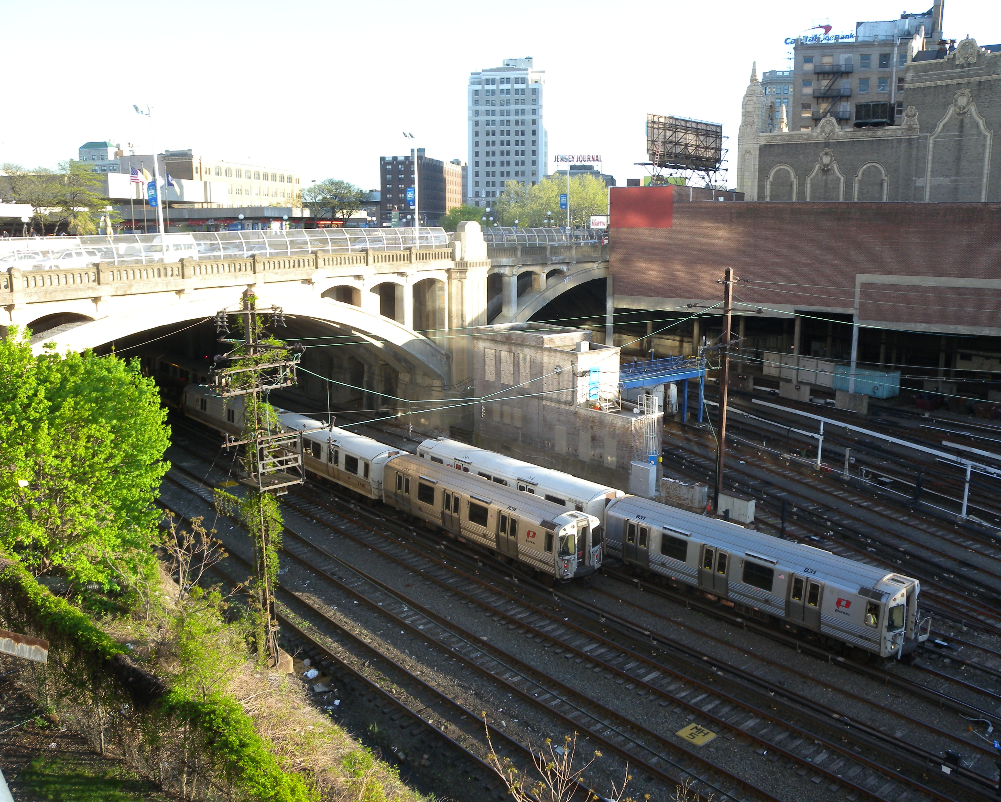 Looking down and southeast at Hudson County Boulevard Bridge in Jersey City, New Jersey on a sunny late afternoon. Loews Jersey Theater in background right. See File:Blvd Bridge west piers jeh.jpg for closeup of pier.